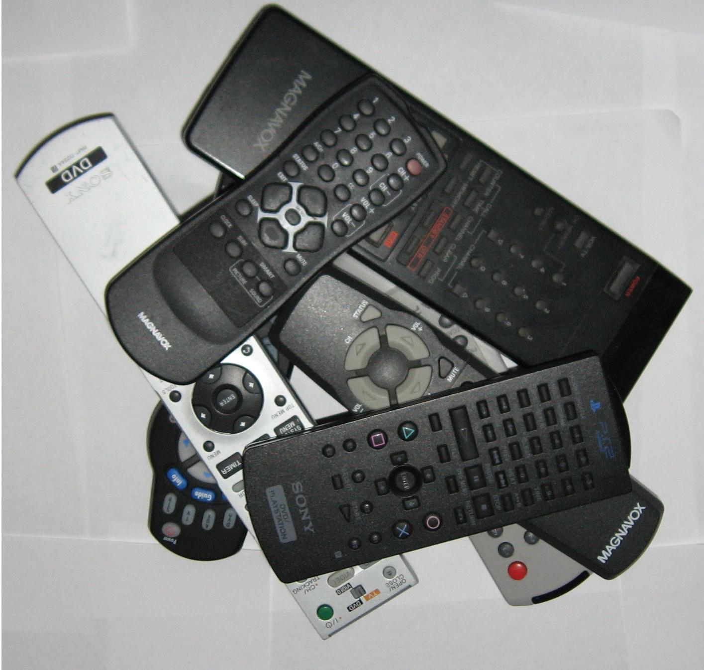 A series of remotes piled on top and alongside each other.